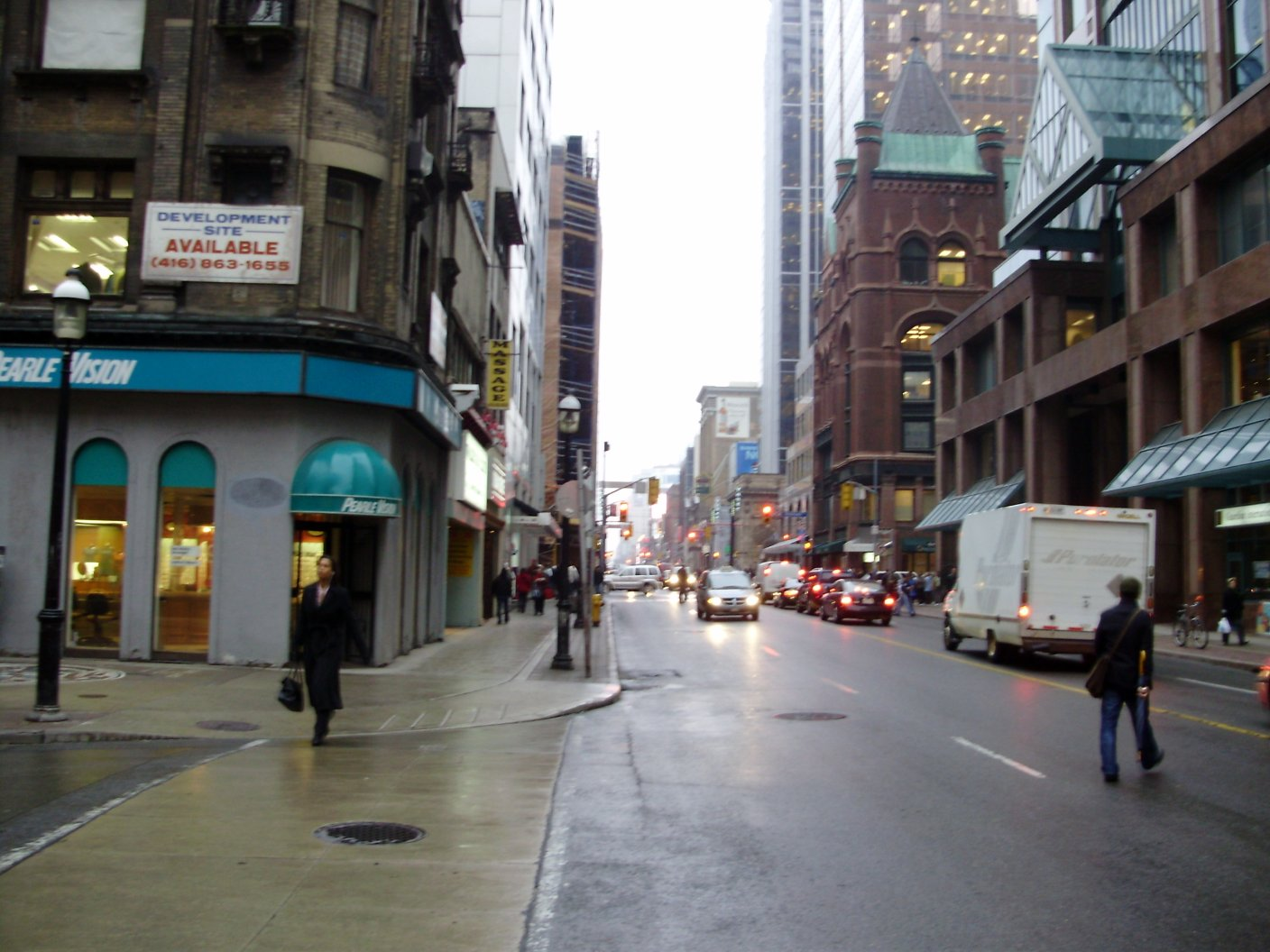 Photo of Yonge Street, looking north at Temperance Street in Toronto, ON, in 2008. The Confederation Life Building is visible in the background.